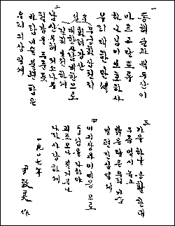 The South Korean national anthem, "Aegukga".